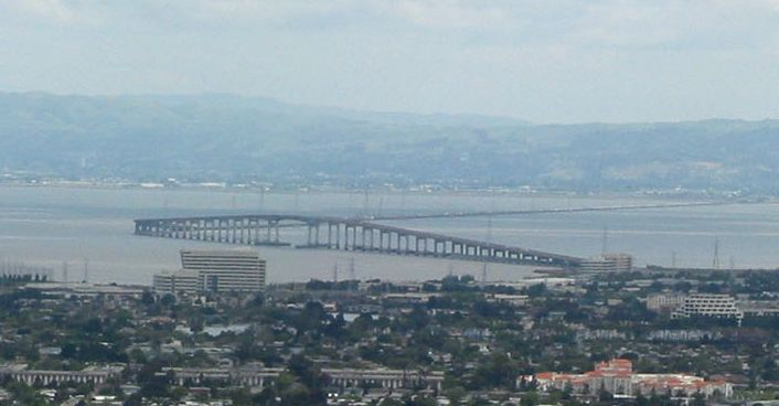 San Mateo-Hayward Bridge cropped by uploader from large panorama image.